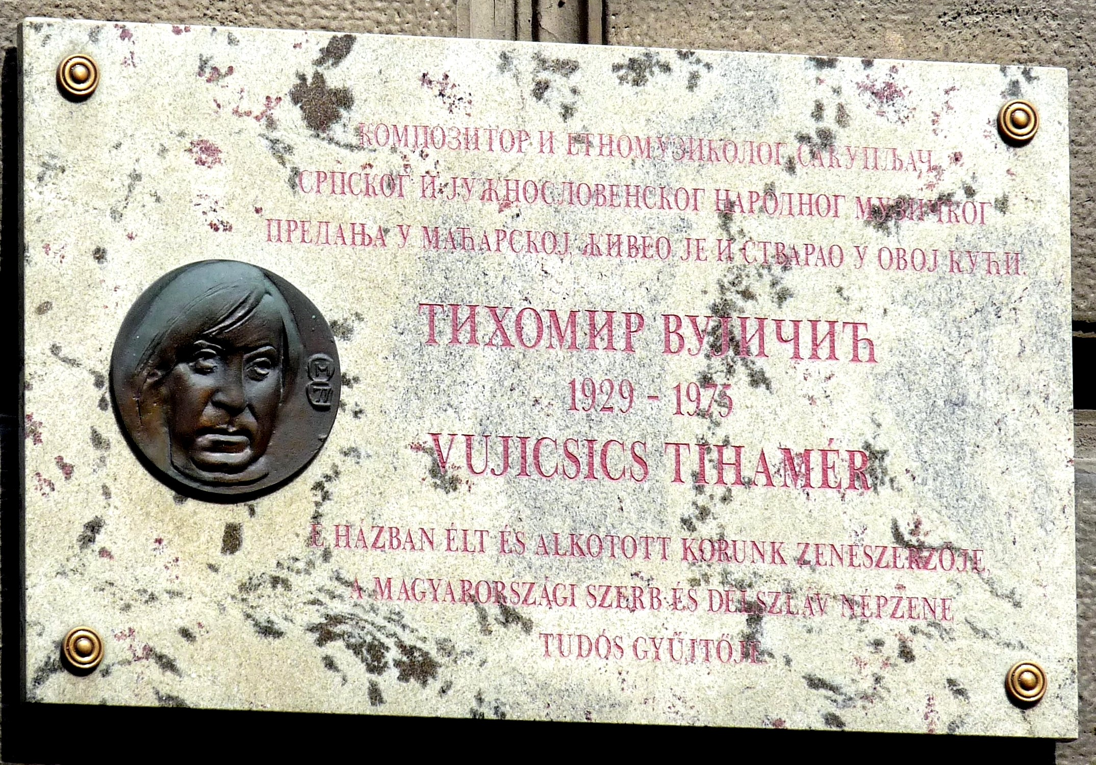 Commemorative plaque to Mr. Tihamér Vujicsics (1929–1975) Serbian nationality composer and folk music collector in Hungary. It is affixed on the wall of his former home. (Budapest, District V, Váci Street Nr 66).